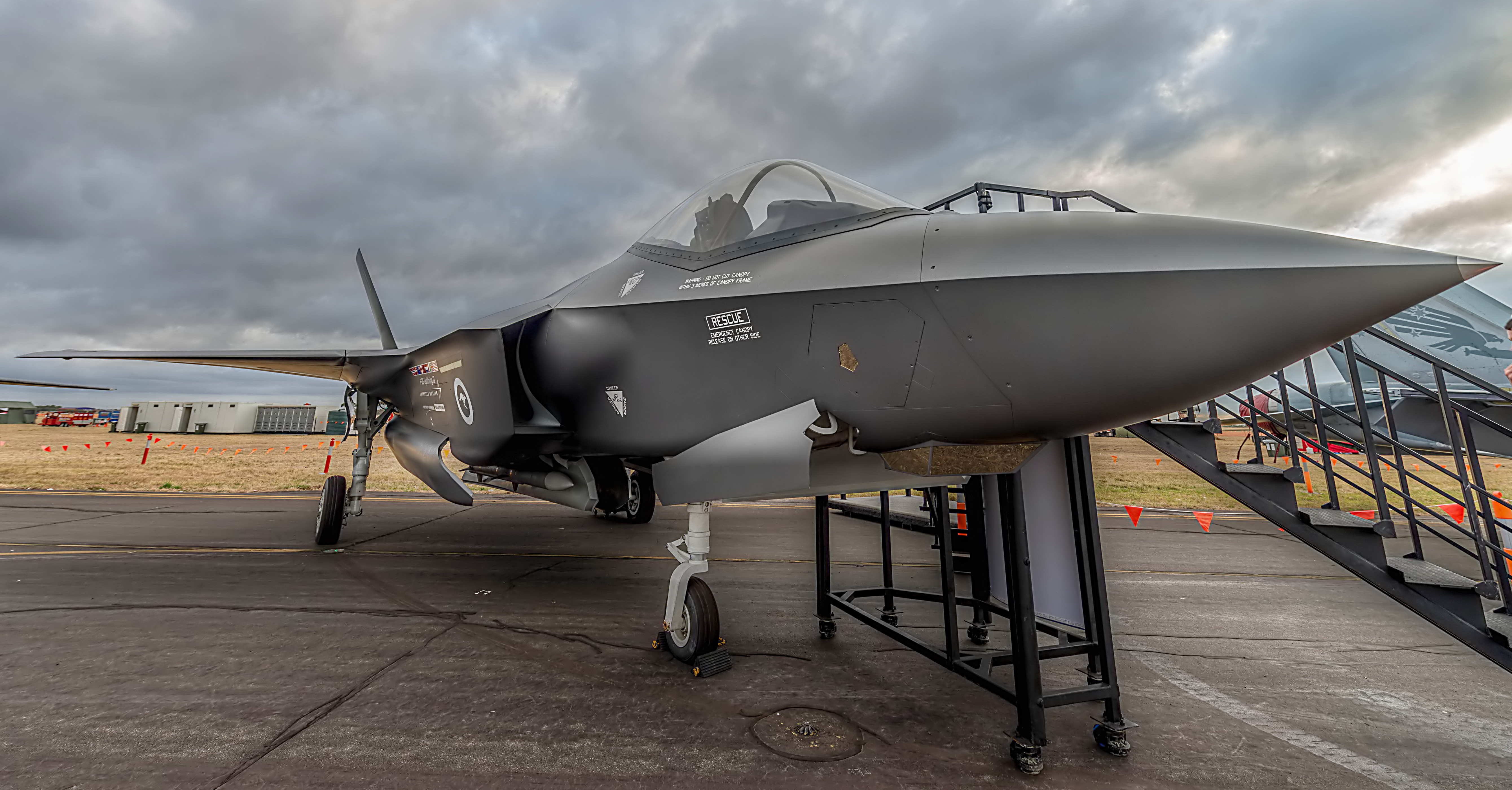 F-35A Lightning II Joint Strike Fighter Mockup on display at Centenary of Military Aviation 2014